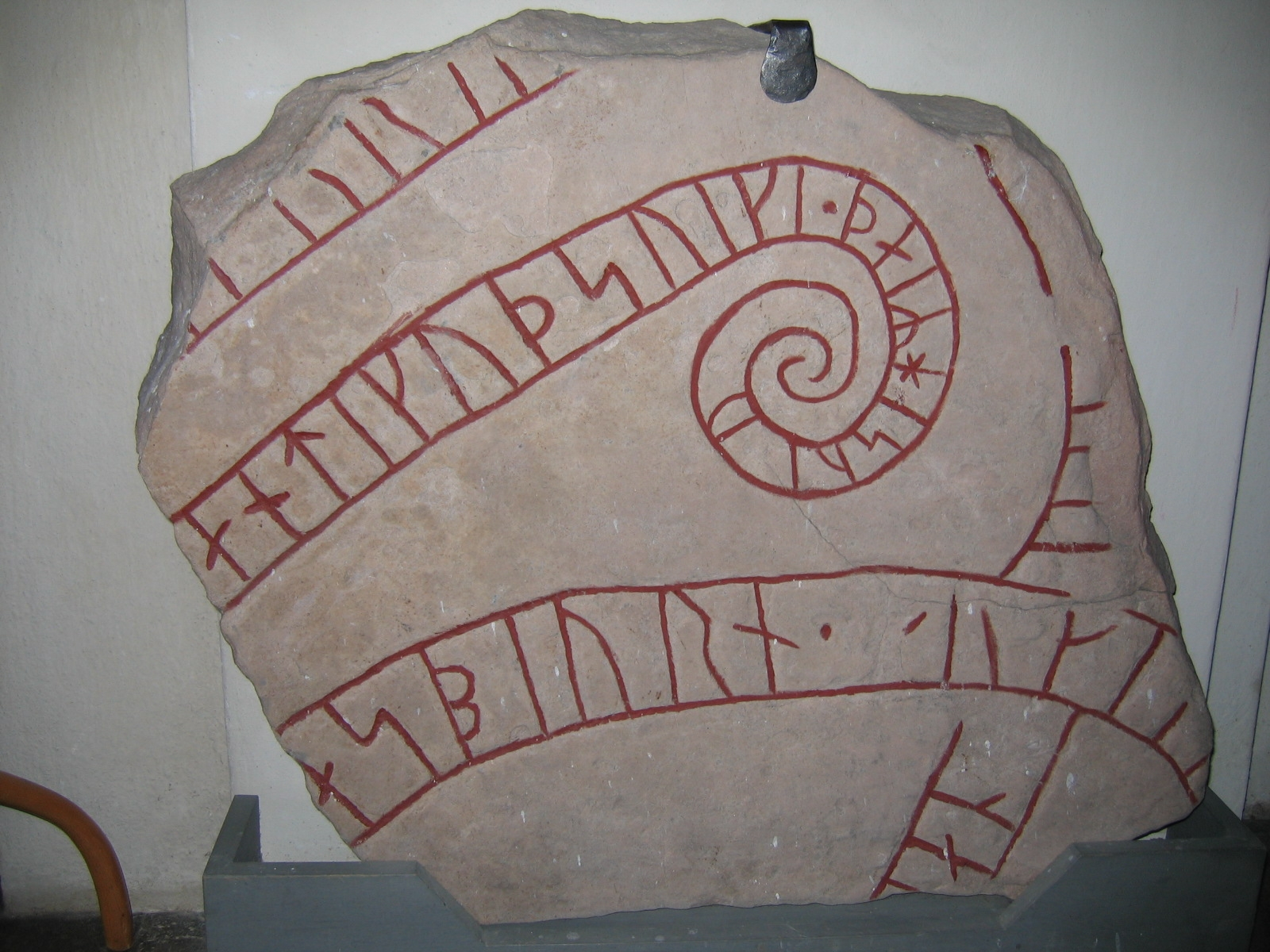 Runestone, Uppland, Sweden